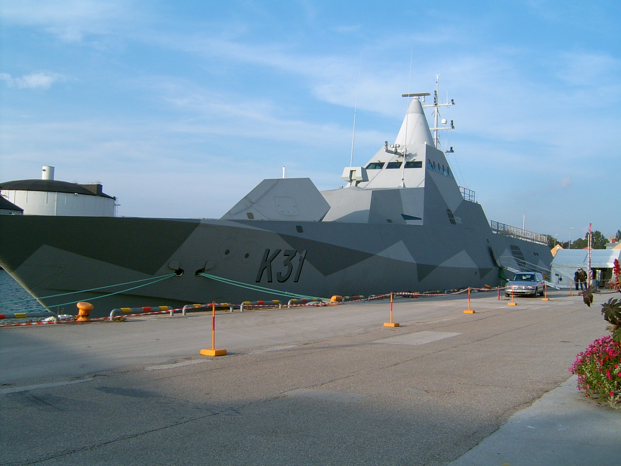 Swedish corvette HMS Visby in the harbor of Visby.